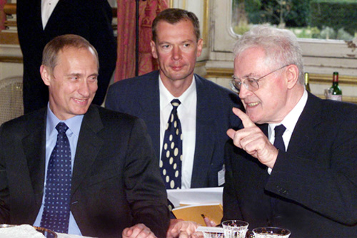 PARIS. President Putin and French Prime Minister Lionel Jospin.